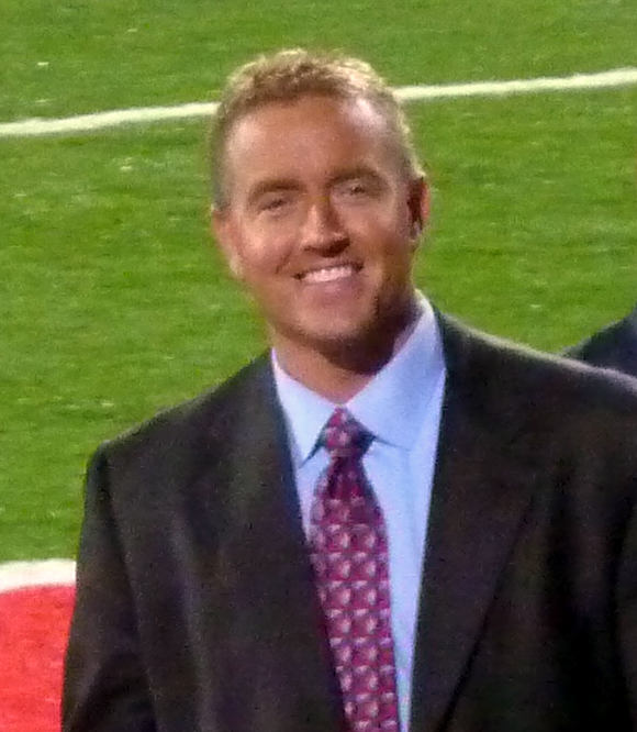 ESPN College GameDay's Kirk Herbstreit in Columbus, Ohio.